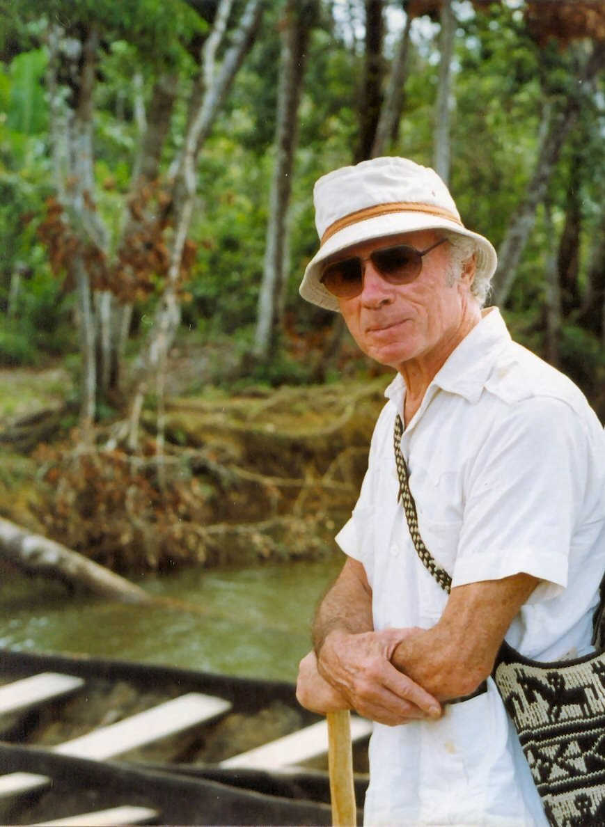 This is a photo of Roy Pinney in the Amazon jungle. The original photo is of Roy Pinney and his son Tor Pinney. This is just a crop of the original photo.